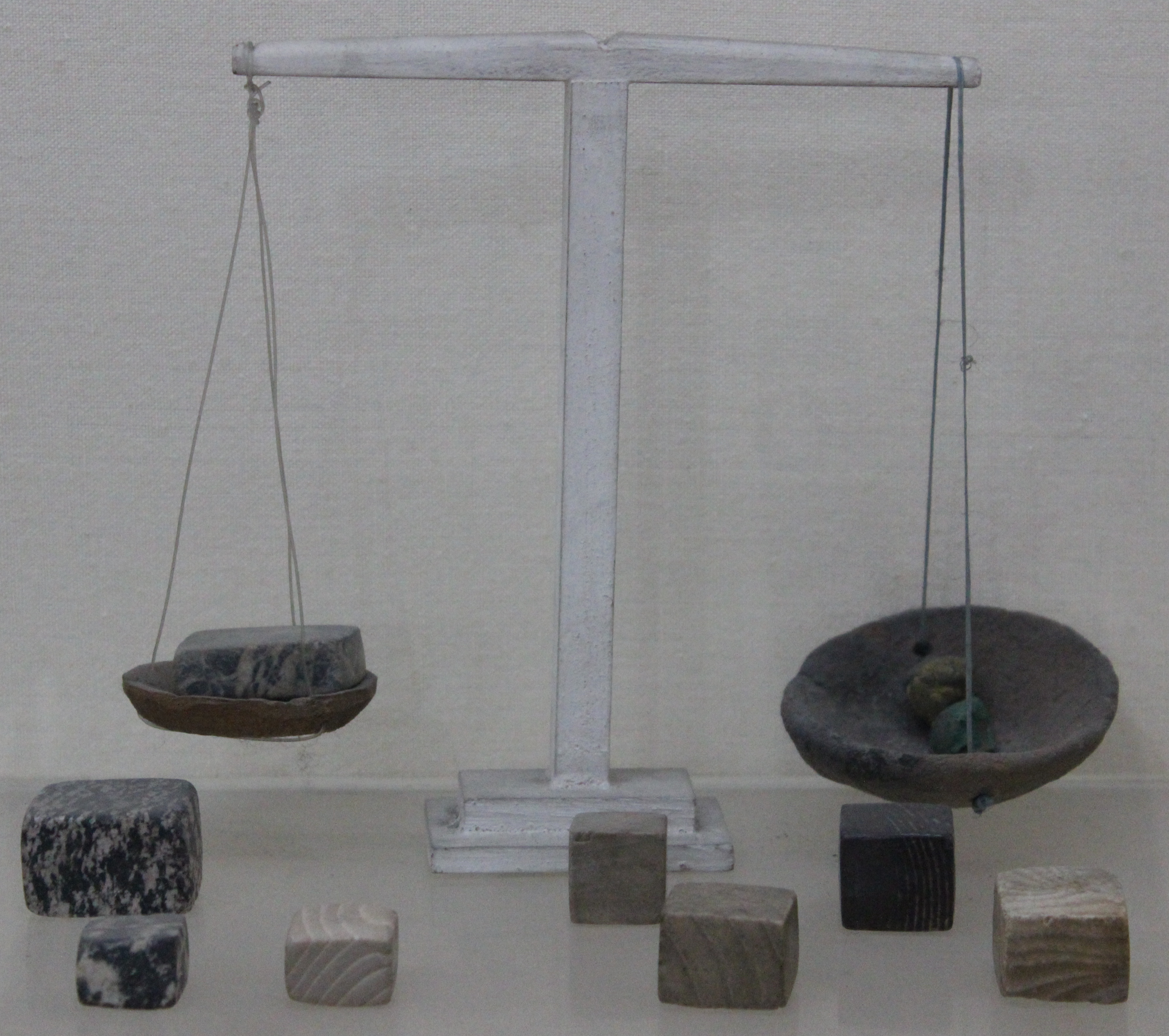 weighing scale of harrappa time in the National Museum